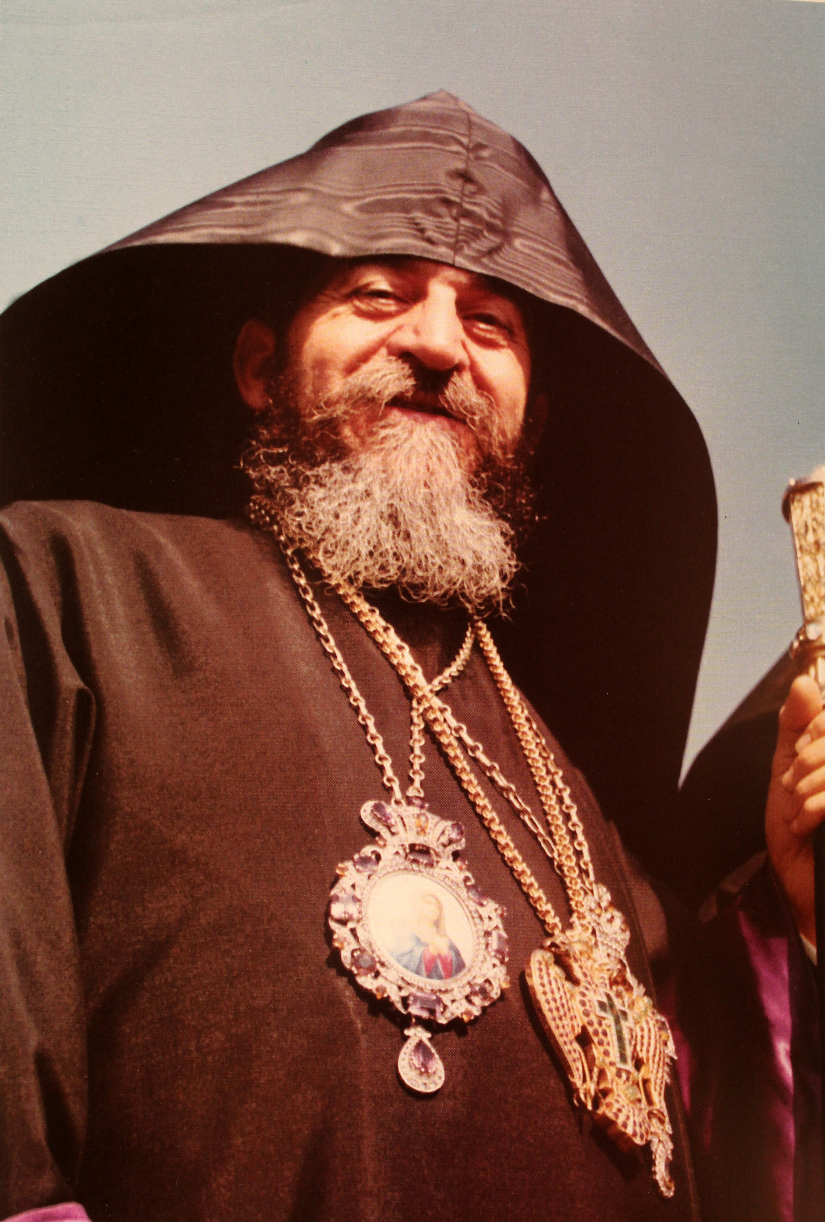 The making of this file was supported by Wikimedia Armenia.